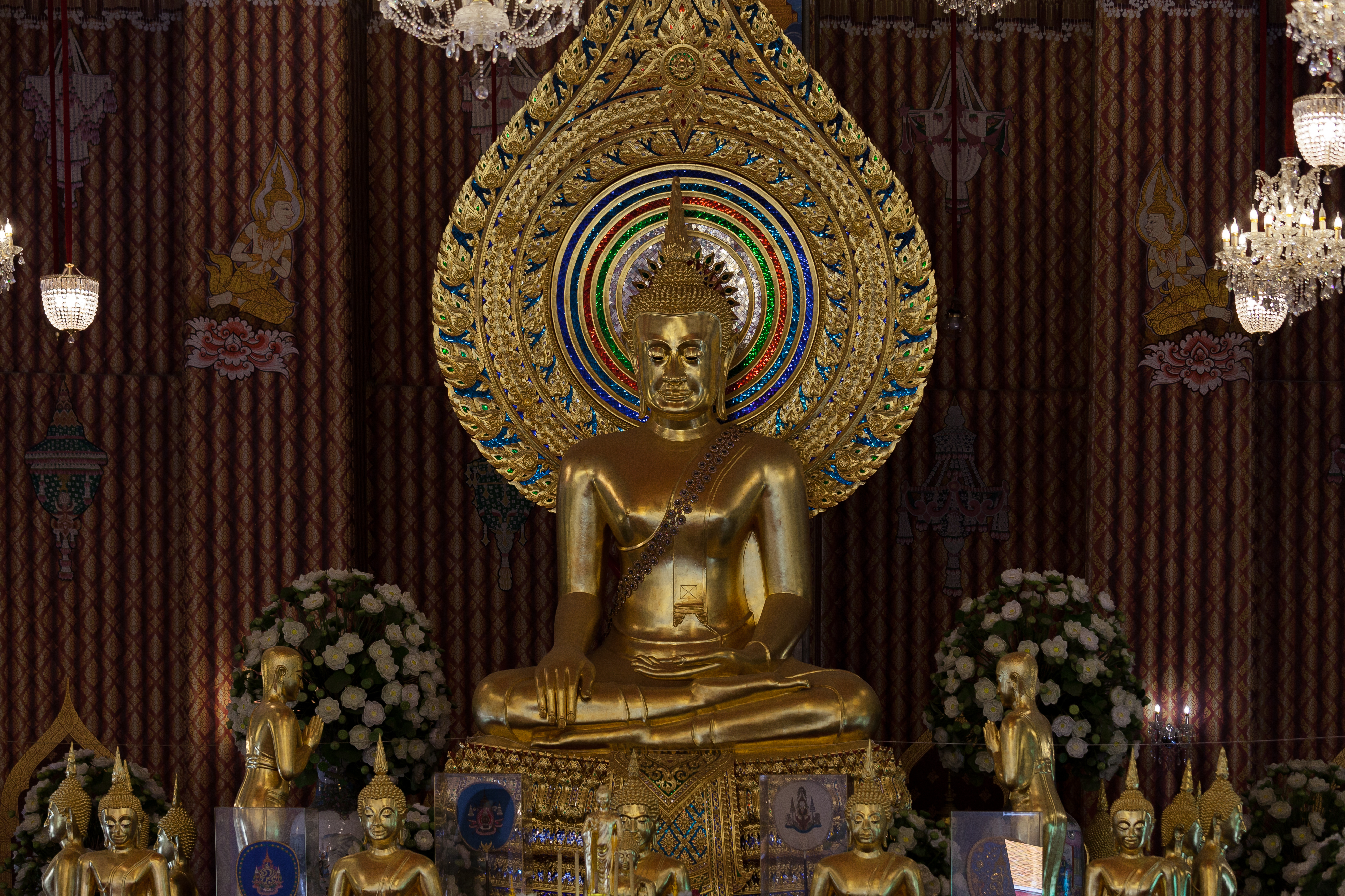 Phra Phuttha Nora Si Trilokachet in Ubosot of Wat Chana Songkhram, Bangkok.